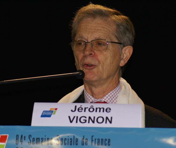 Jérôme Vignon, former director for Social inclusion and social protection at European Commission, speaking at the Semaines sociales de France at Villepinte, on the 20th of November, 2009.